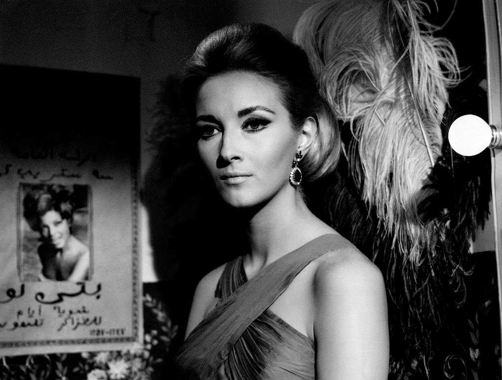 Italian actress and model Daniela Bianchi wearing an evening dress in the film Requiem for a Secret Agent, 1966.